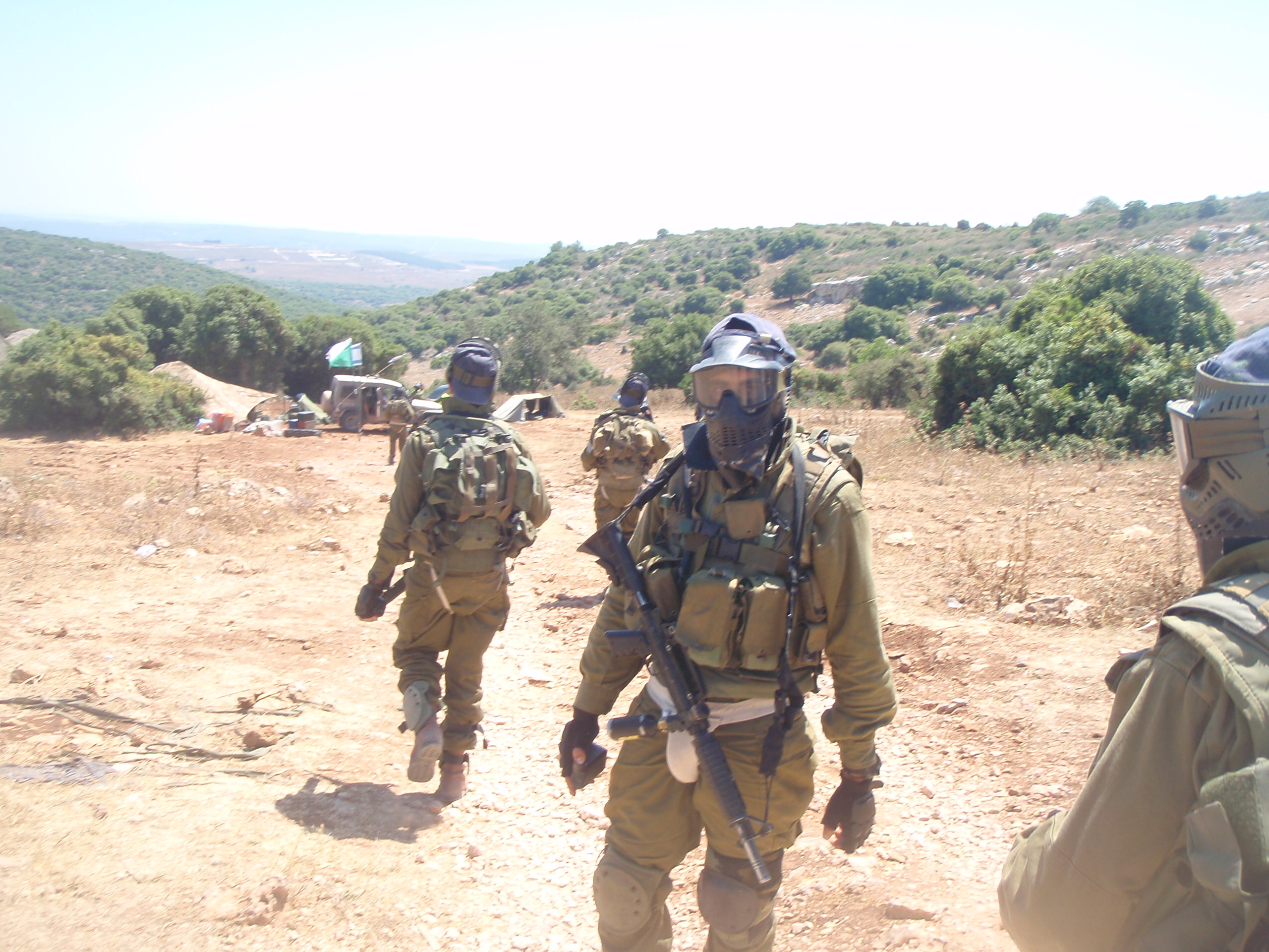 Combat training with paintball weapons